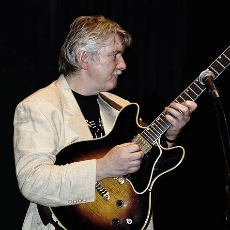 Pierre Dørge